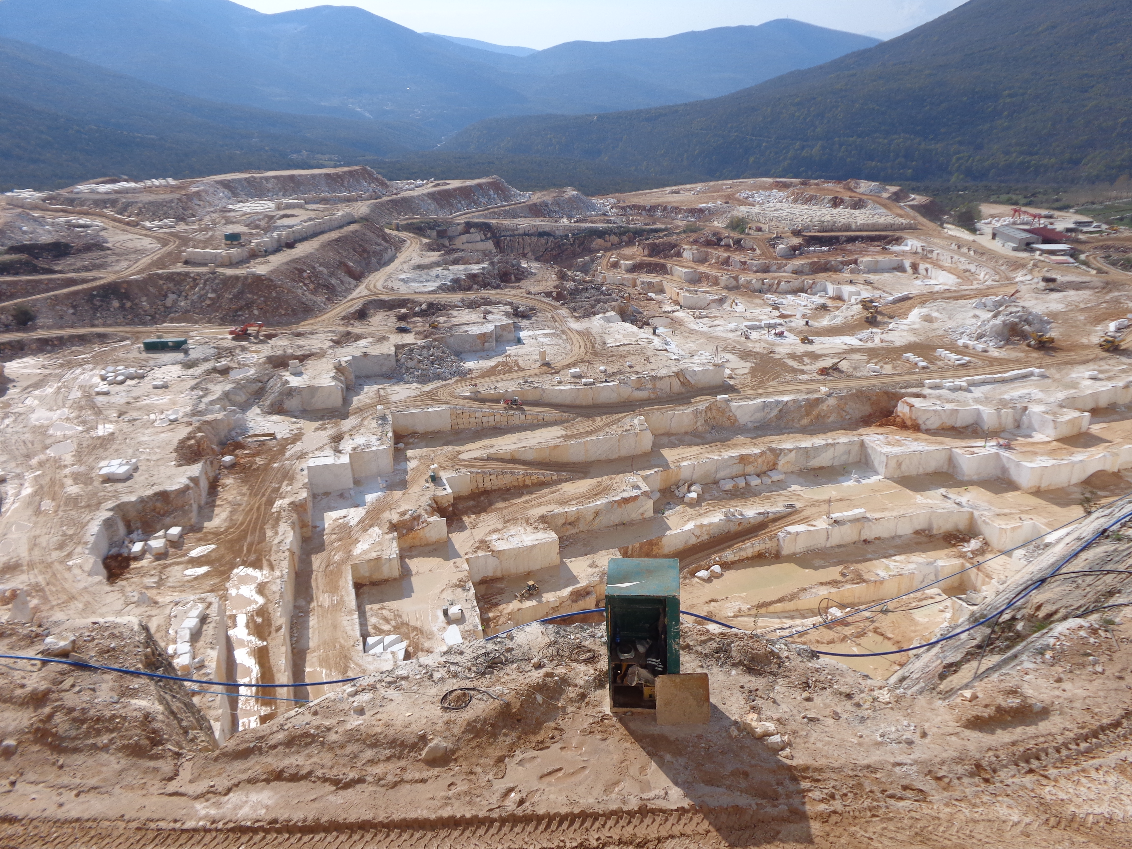 Ariston marble quarry In Granitis, Drama (pavlidis company)